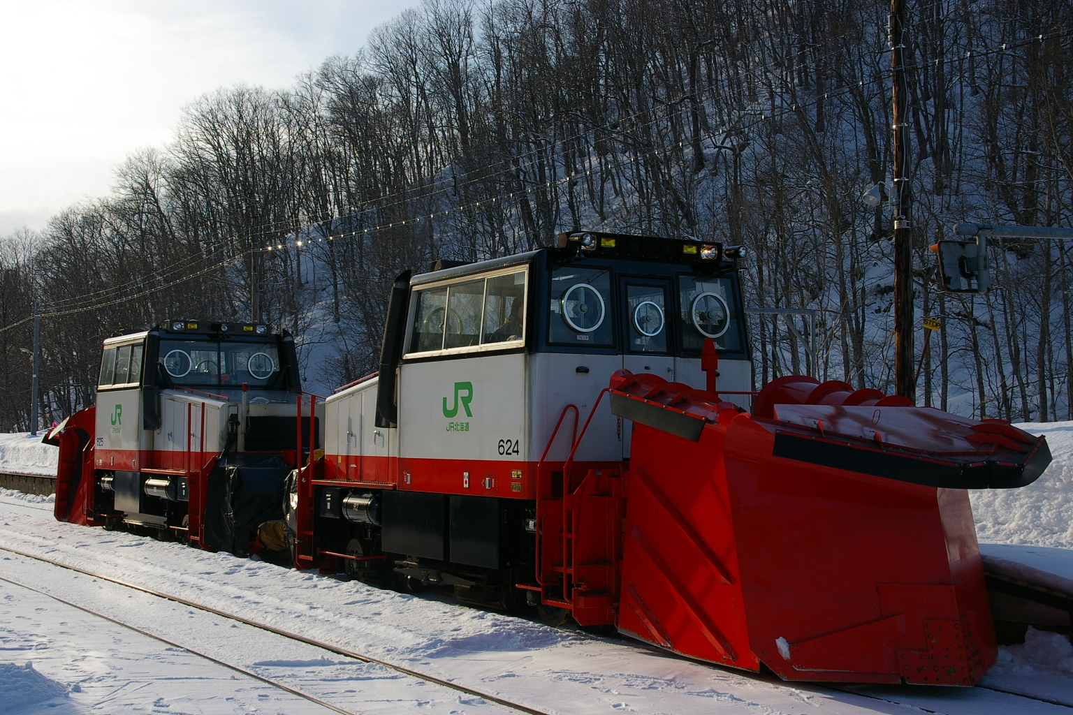 JR hokkaido HTR-600(624&625) removing snow in Rumoi line.